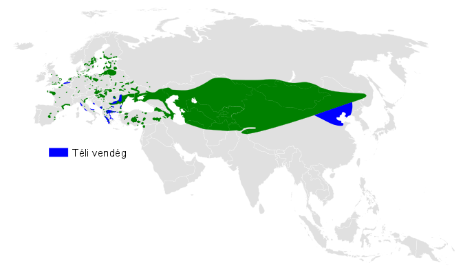 Panurus biarmicus distribution map; using BlankMap-World6.svg, based on